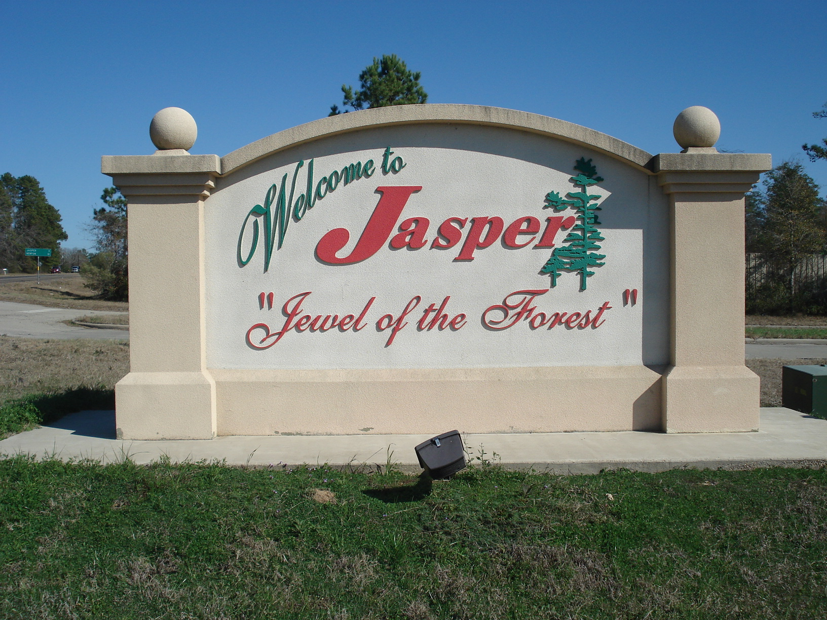 Welcome to Jasper sign coming in from US Hwy 190 West